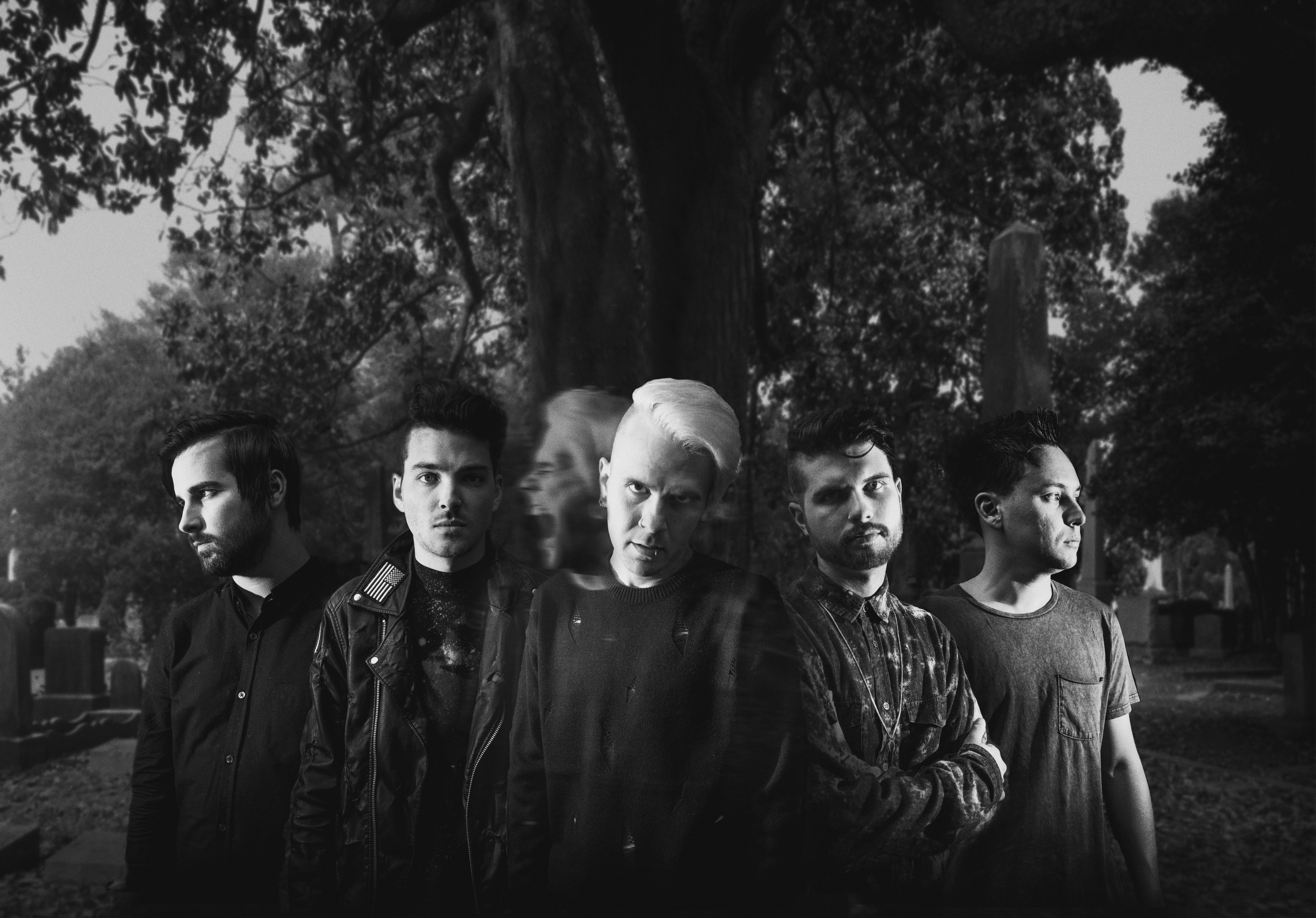 Photo of the band My Enemies & I